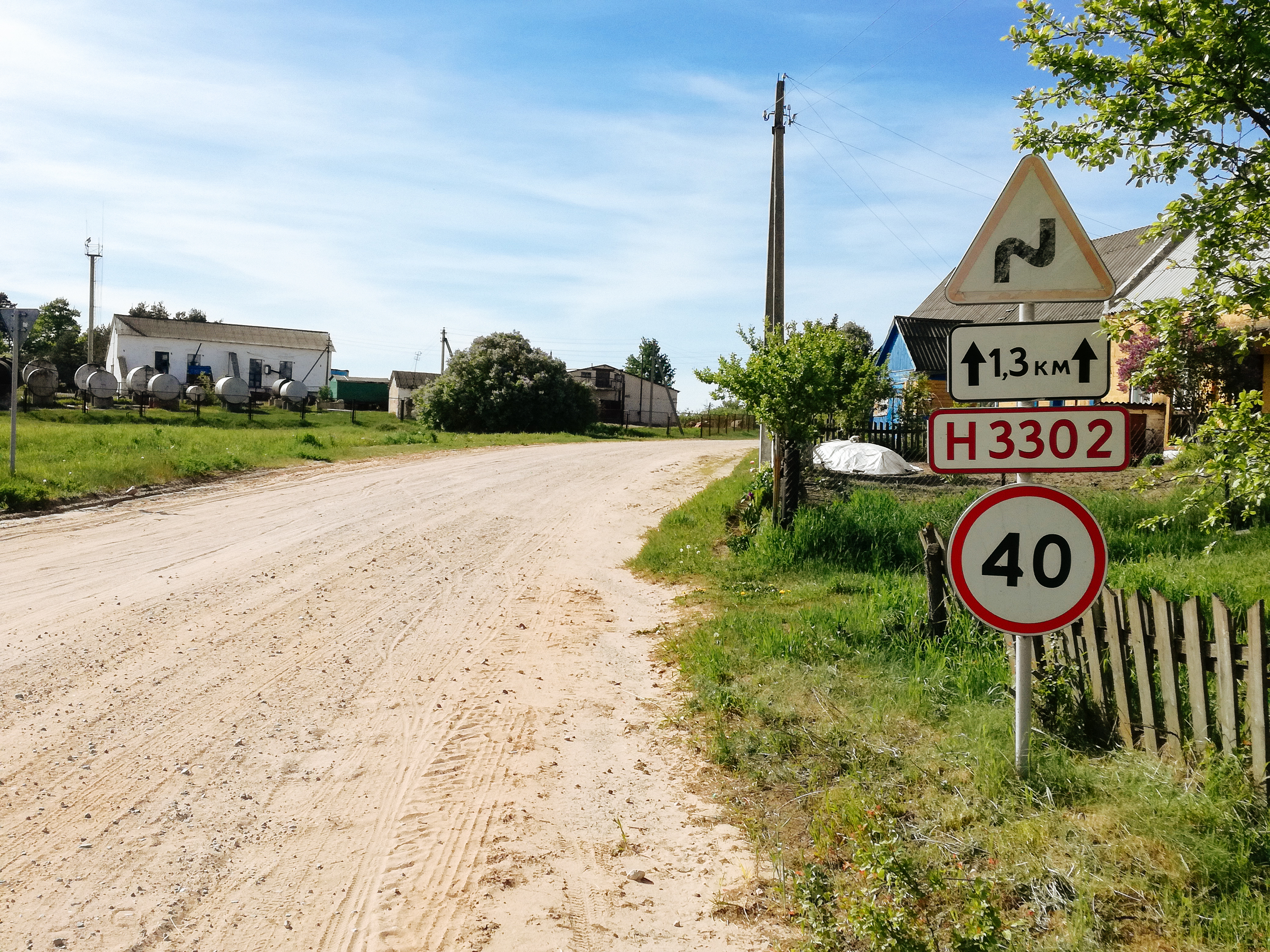 dunilovichi